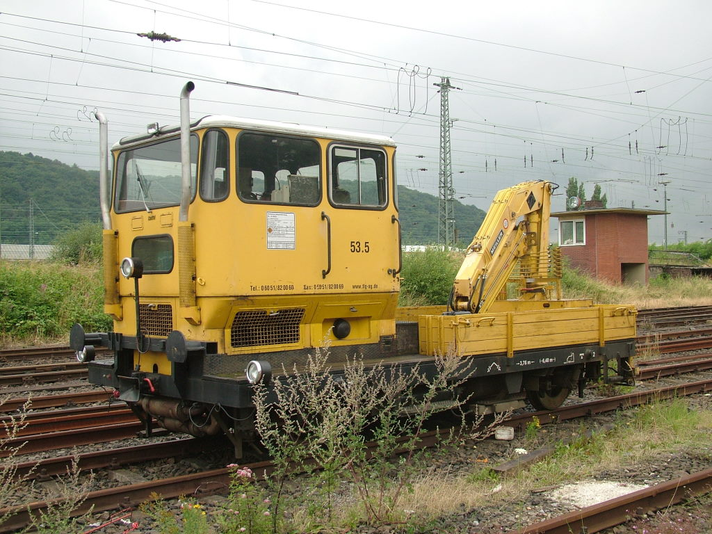 Track Maintenance Vehicle Klv 53-0632 standing in Hagen, Westphalia, Germany